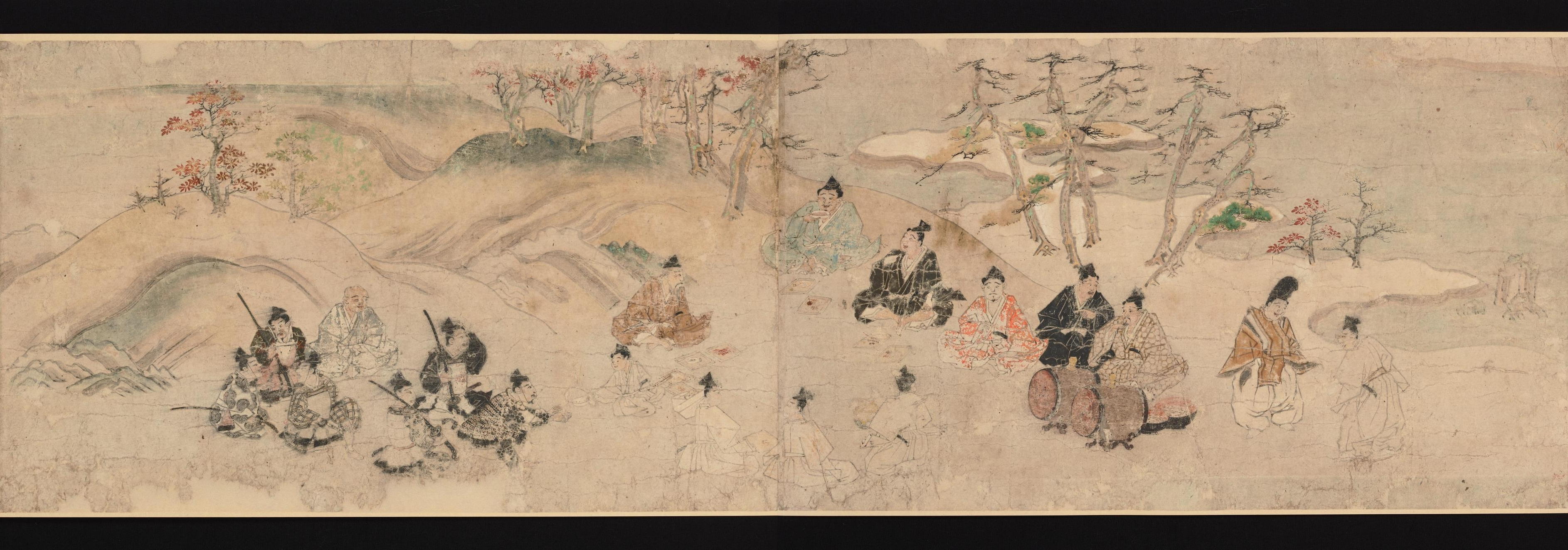 Sumiyoshi monogatari emaki. Tokyo National Museum. Part 4.